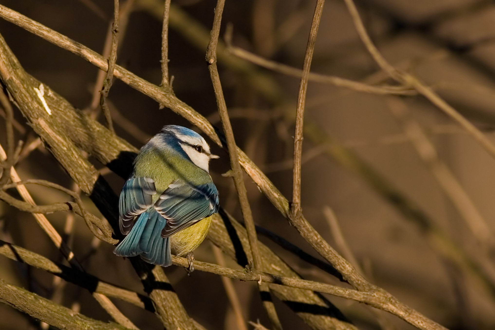 Parus caeruleus (Blue tit) in its natural habitat. Photo by Thermos.